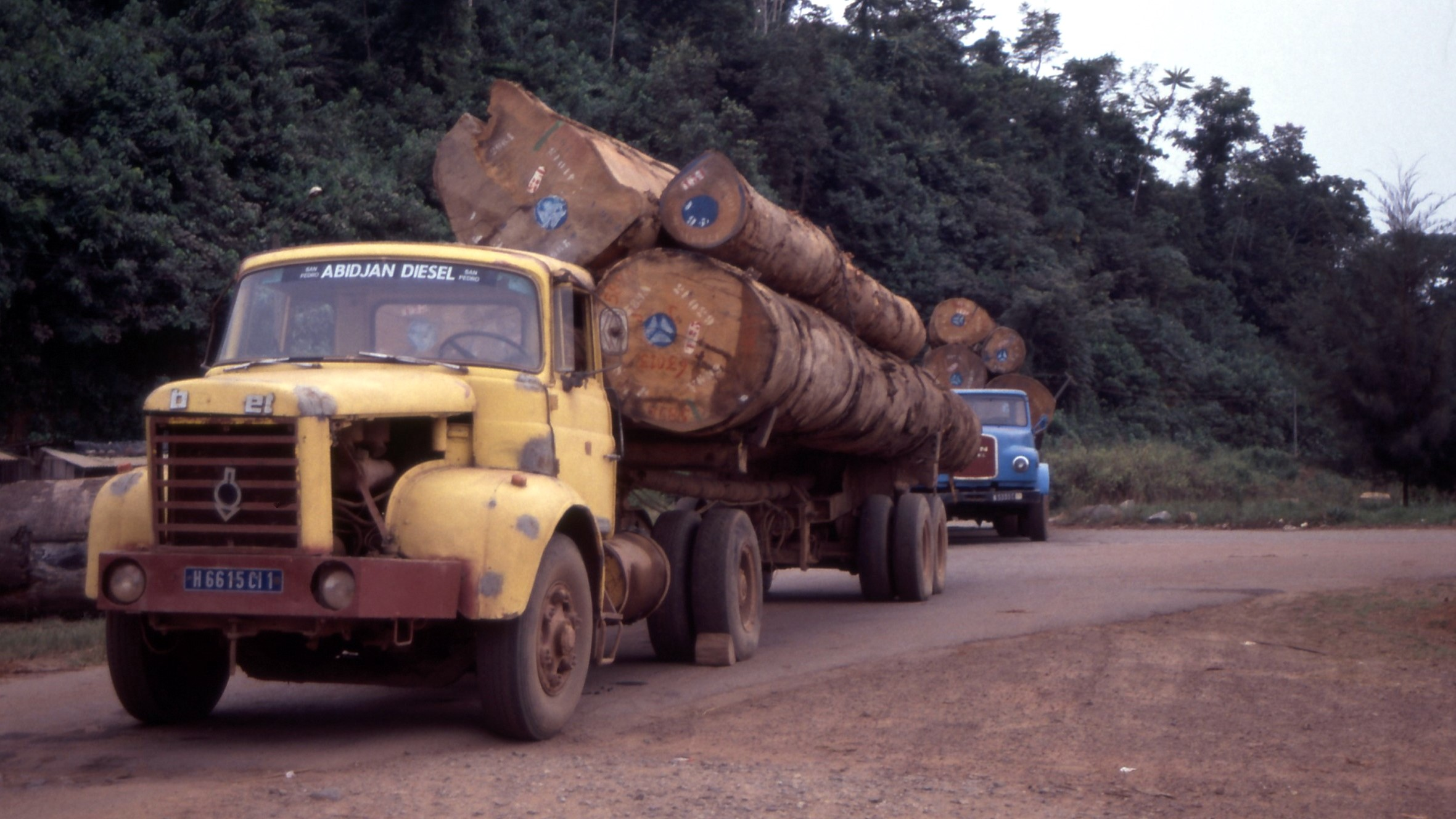 Timber transport at the port of San Pedro, Ivory Coast, January 1990.